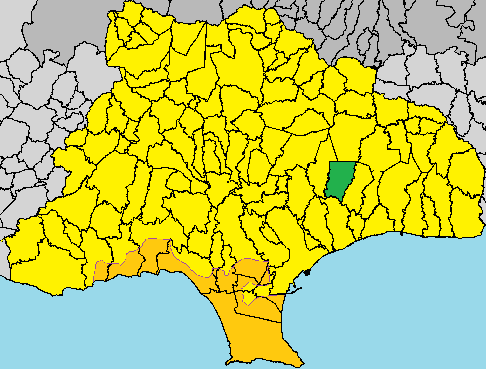 Akrounta in Limassol District.